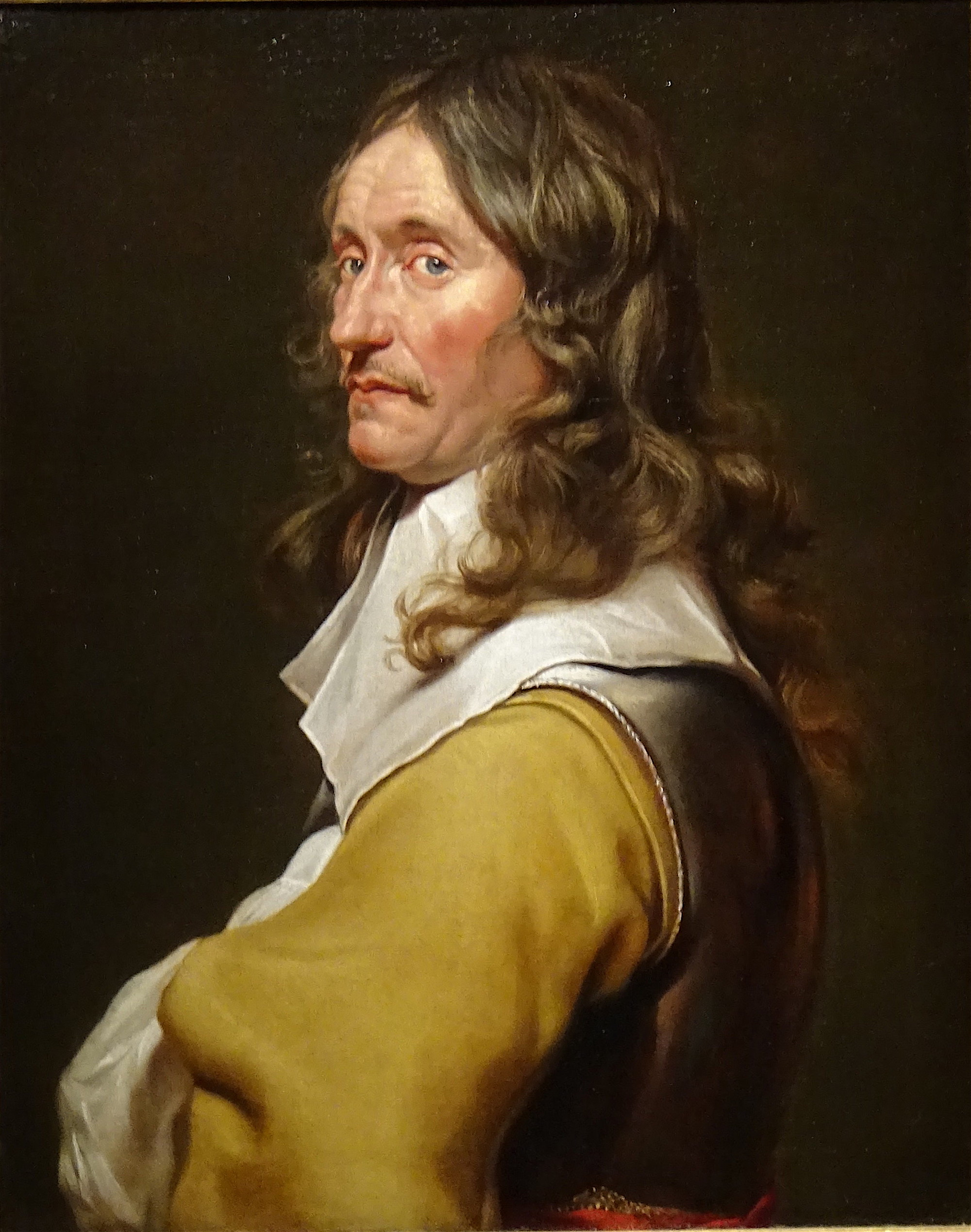 Portrait of a military commander by Michaelina Wautier